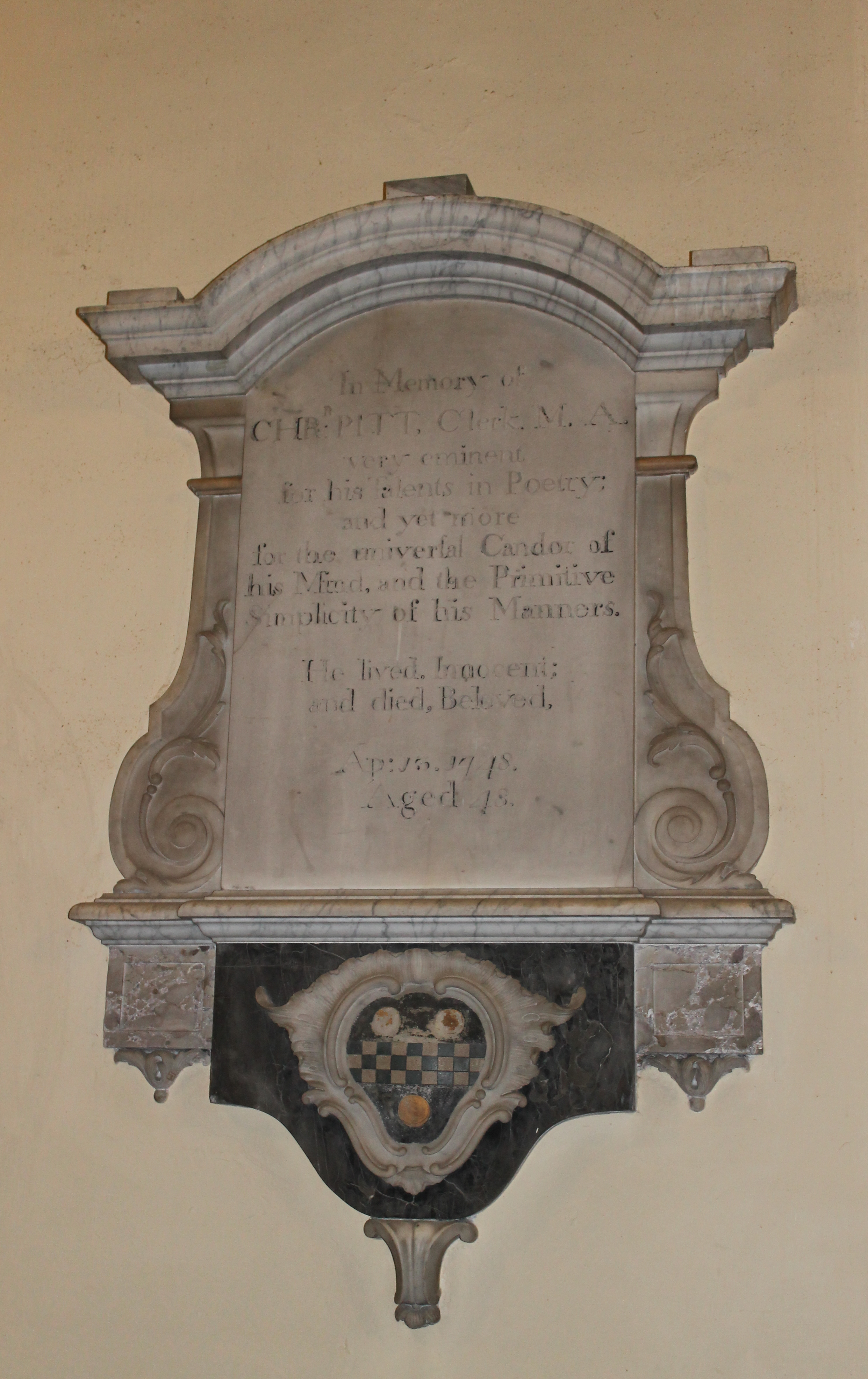 Memorial to Christopher Pitt (1700-1748), in the church of St Peter and St Paul, Blandford Forum, Dorset.